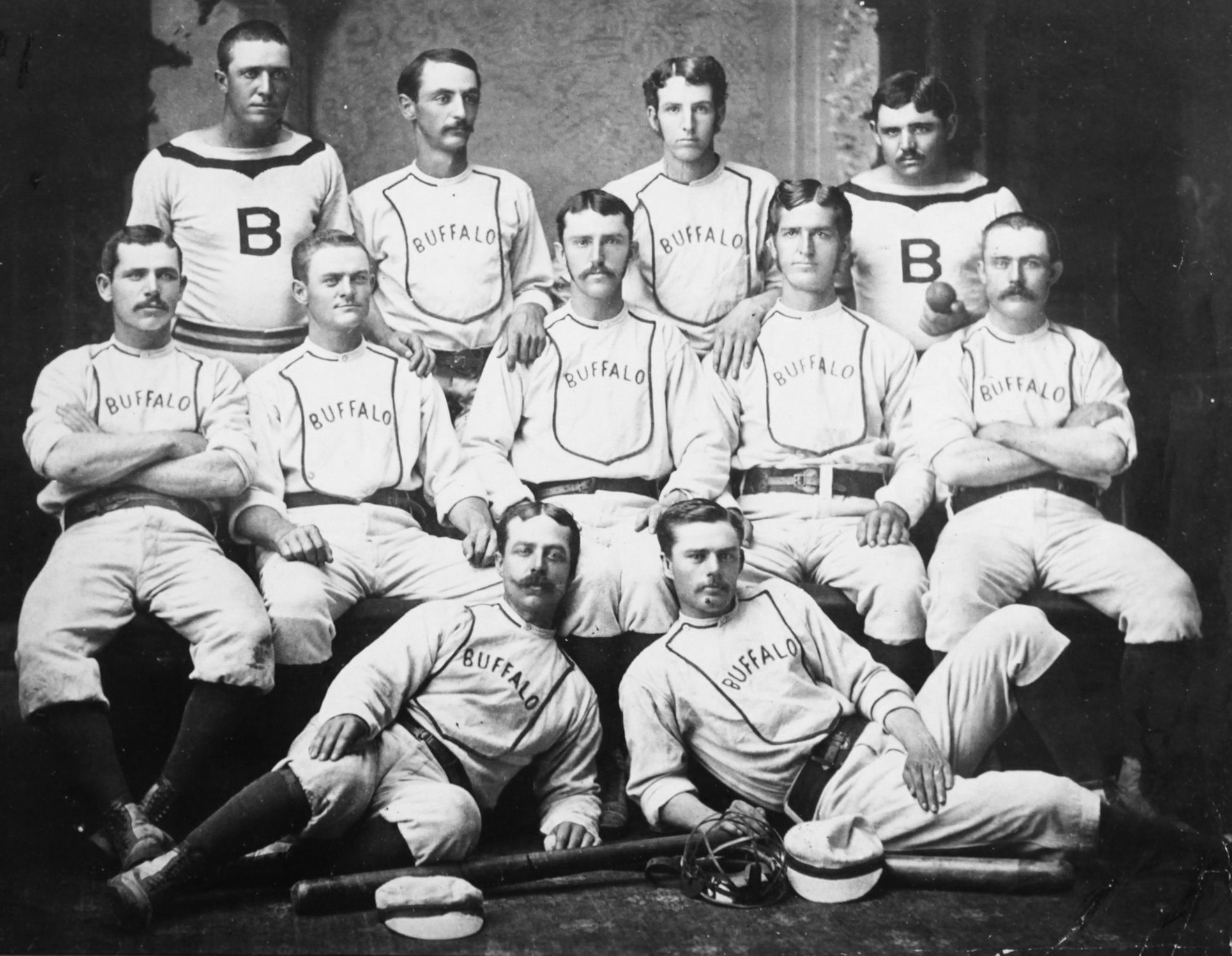 The 1878 International Association for Professional Base Ball Players champion Buffalo BisonsTop row: Tom Dolan, Dick Allen, Bill McGunnigle, Pud GalvinMiddle row: Bill Crowley, Dave Eggler, Steve Libby, Chick Fulmer, Denny MackBottom row: Davy Force, Trick McSorley